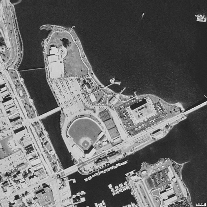 USGS orthophoto of City Island, Daytona Beach, Volusia County, Florida. Halifax River